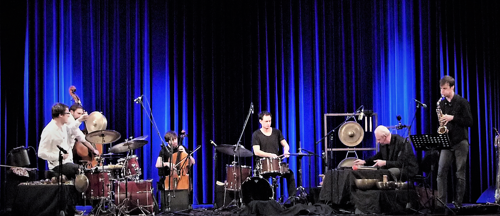 Akosh S. New Unit. Taken on friday, the 17th of November, 2017. Uránia, Budapest, Central Europe. Lineupː Akosh S. (Szelevényi Ákos), Gabriel Lemaire, Valentin Ceccaldi, Ajtai Péter, Porteleki Áron, Miklós Szilveszter.